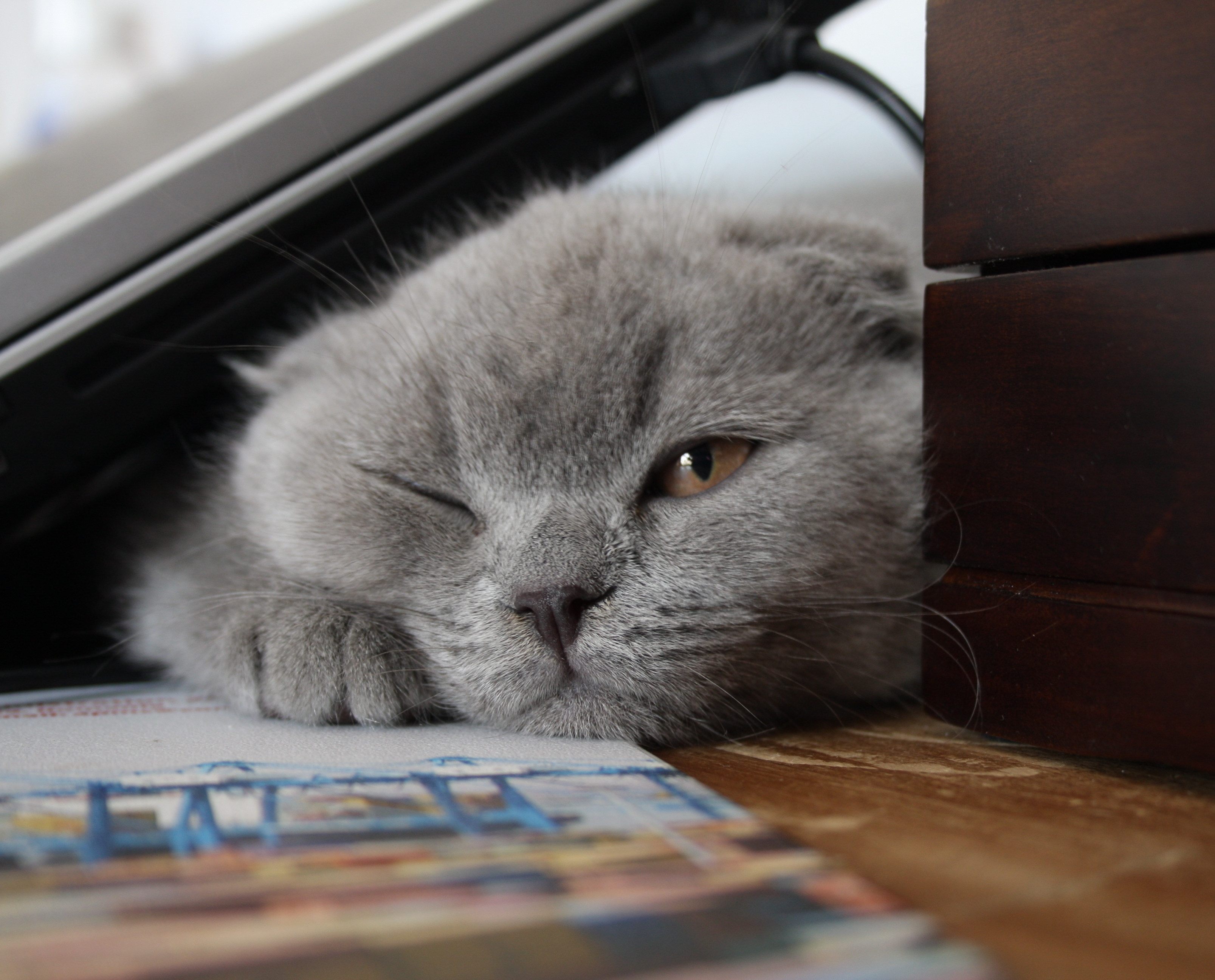 Lilac Scottish Fold